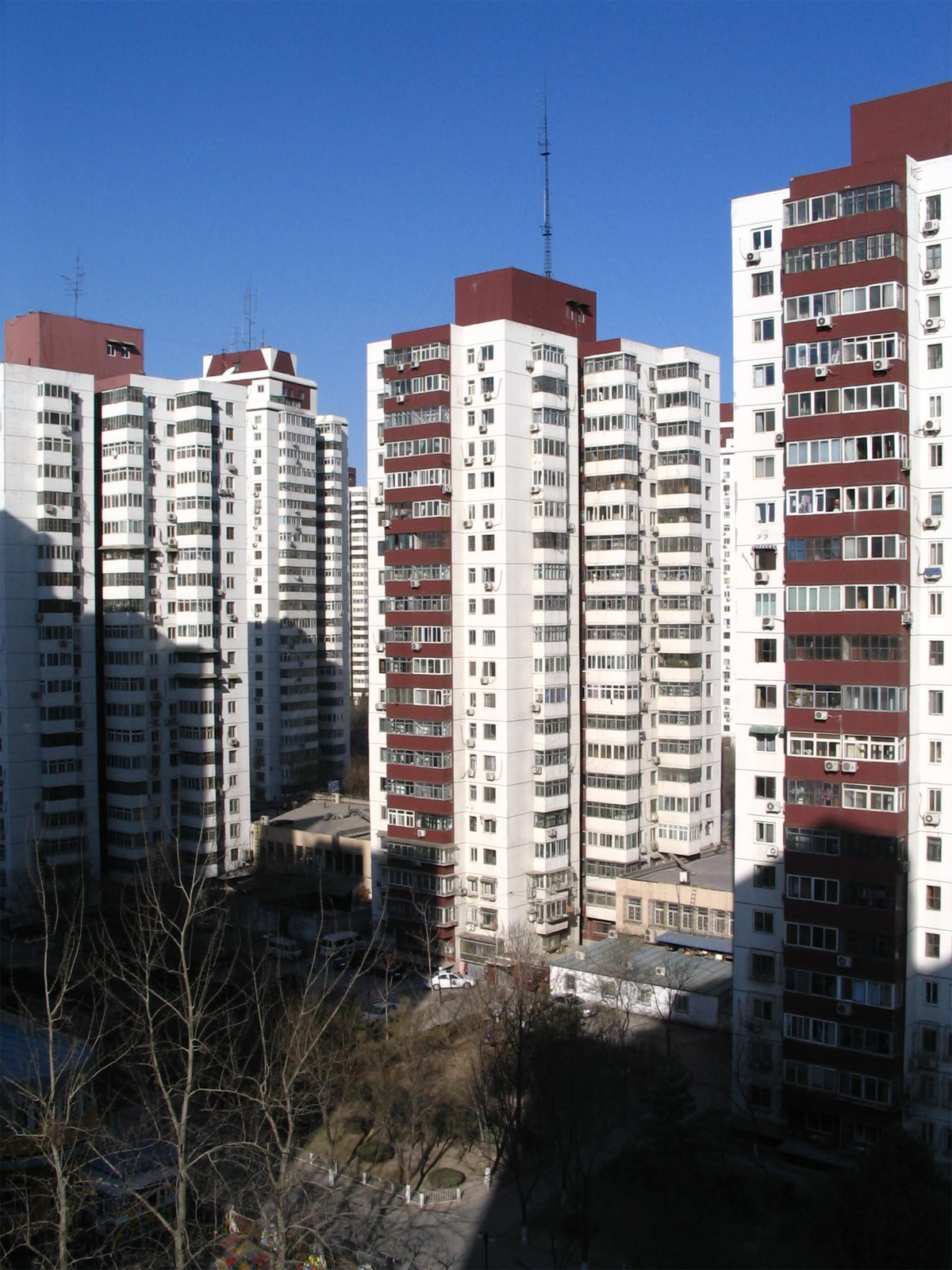 The Anhuili residential district in Yayuncun, Chaoyang District of Beijing (北京市朝阳区亚运村街道的安慧里居民小区).